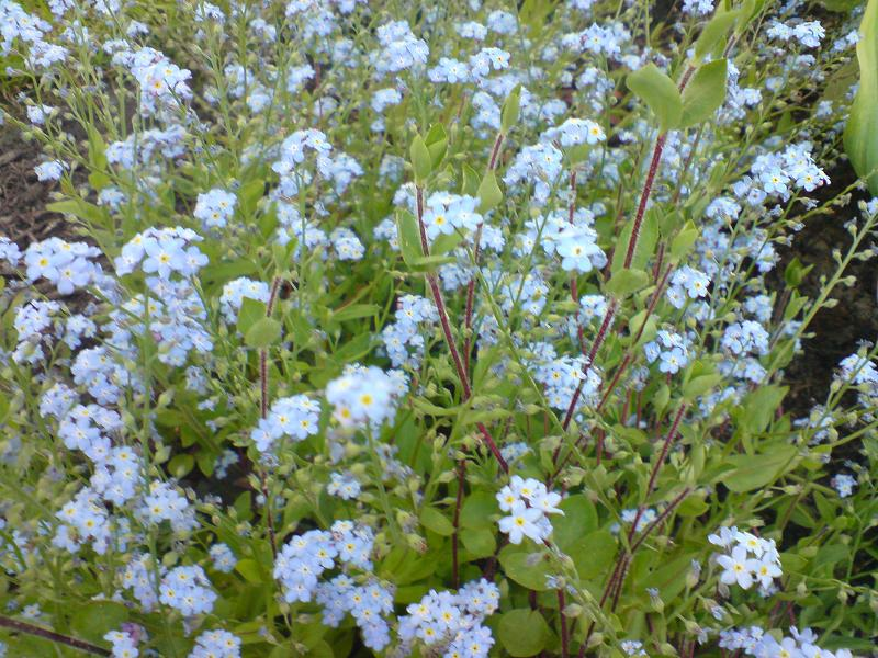 Myosotis arvensis in Kew Gardens, England.